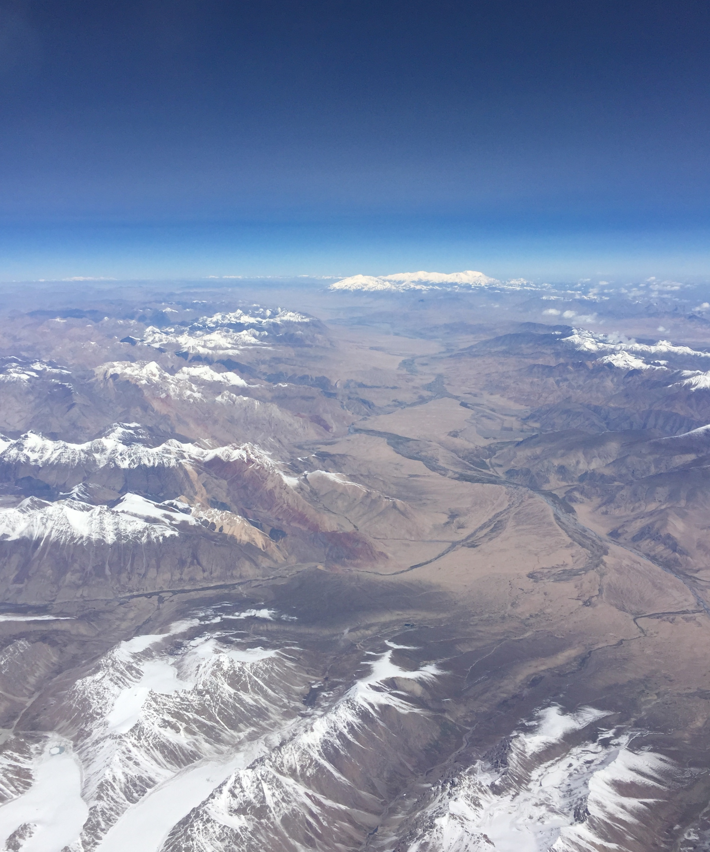 Pamir Mountains and Karakoram Highway in the valley. Mt Muztagh Ata is seen at the far center.